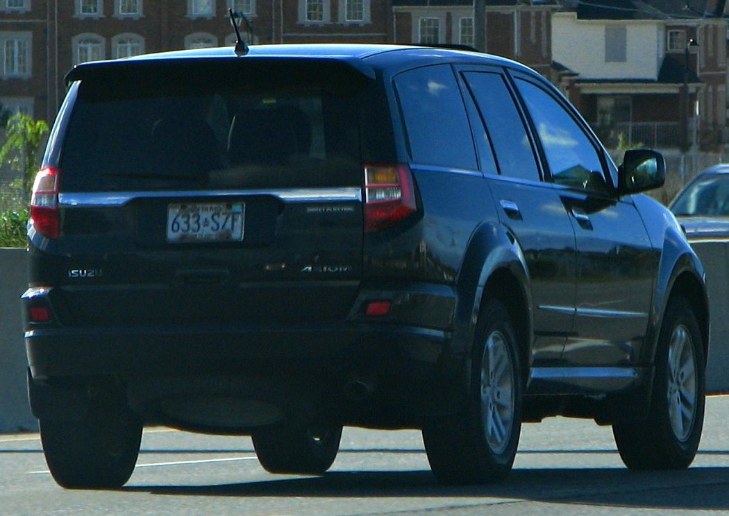 Never sold here in Canada. An imported SUV from the US!